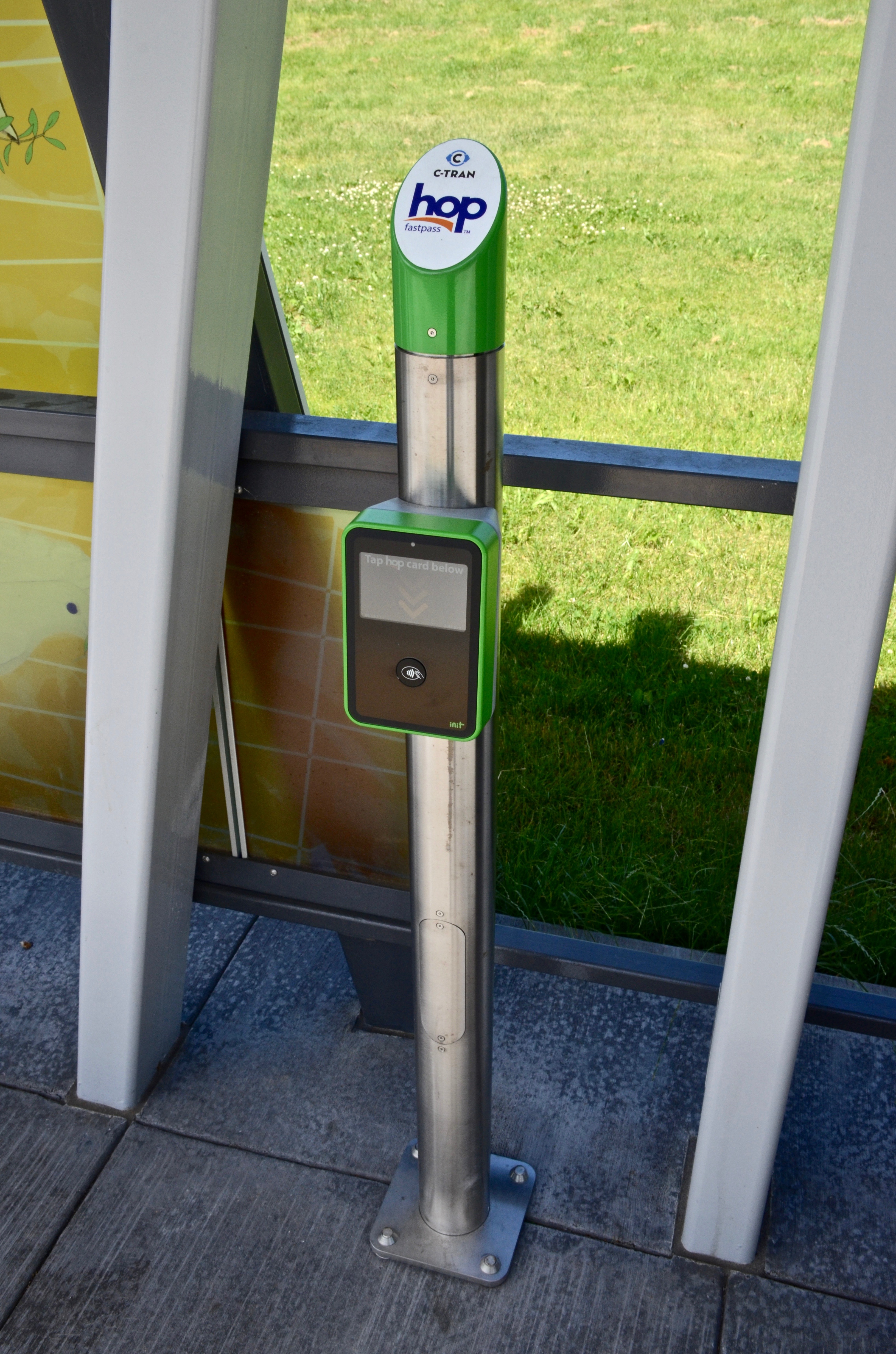 Hop Fastpass reader (and its mounting post) at a station on C-Tran's "The Vine" service, in Vancouver, Washington. This particular one reader is at the Vine's westbound Marshall/Luepke Community Center station.